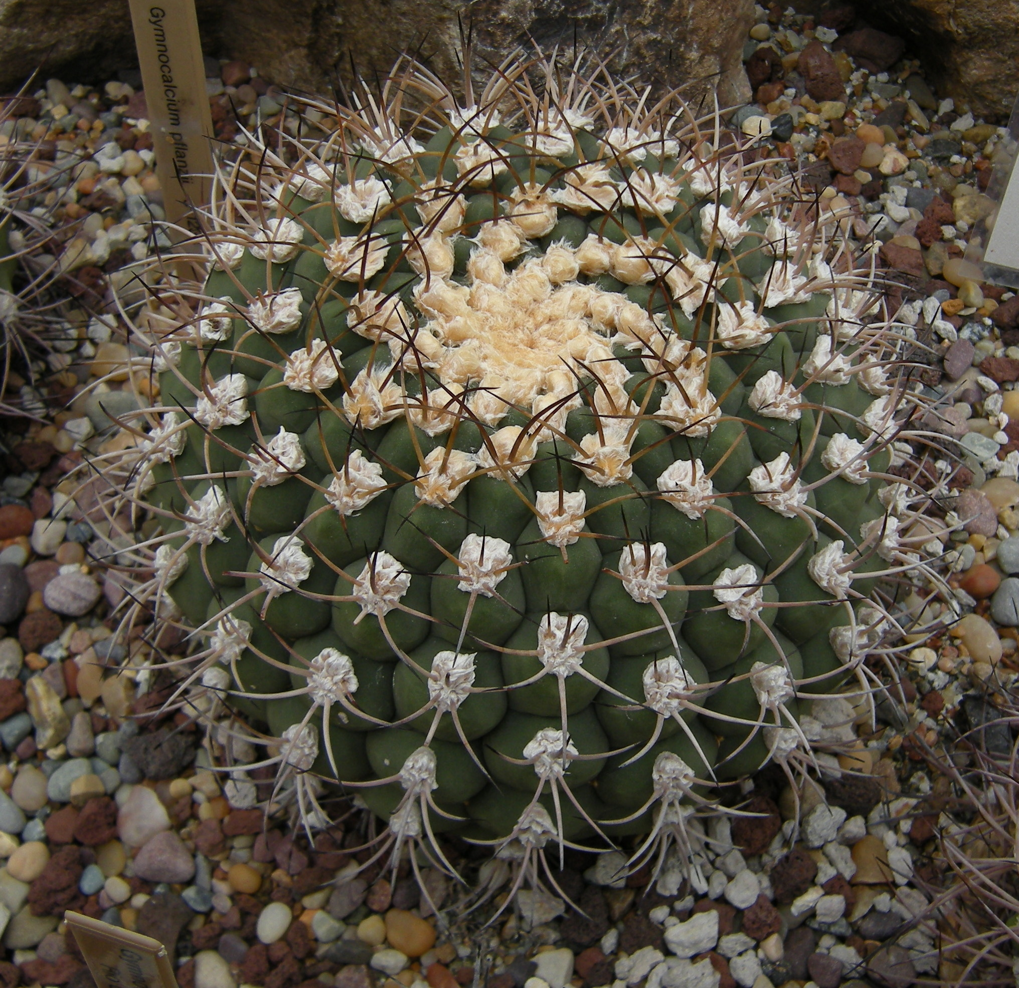 Gymnocalycium pflanzii c-1234. Photographed at Volunteer Park Conservatory, Seattle, Washington.